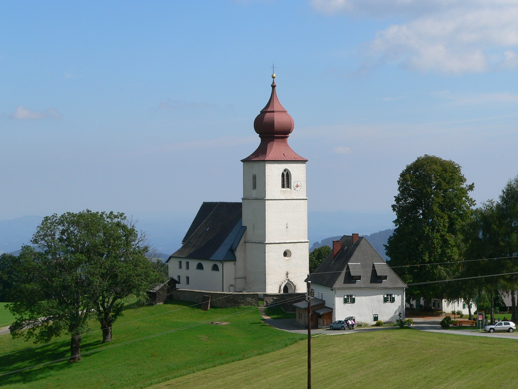 Church, rectory and part of small village Osterwitz This media shows the natural monument in Styria with the ID 474.